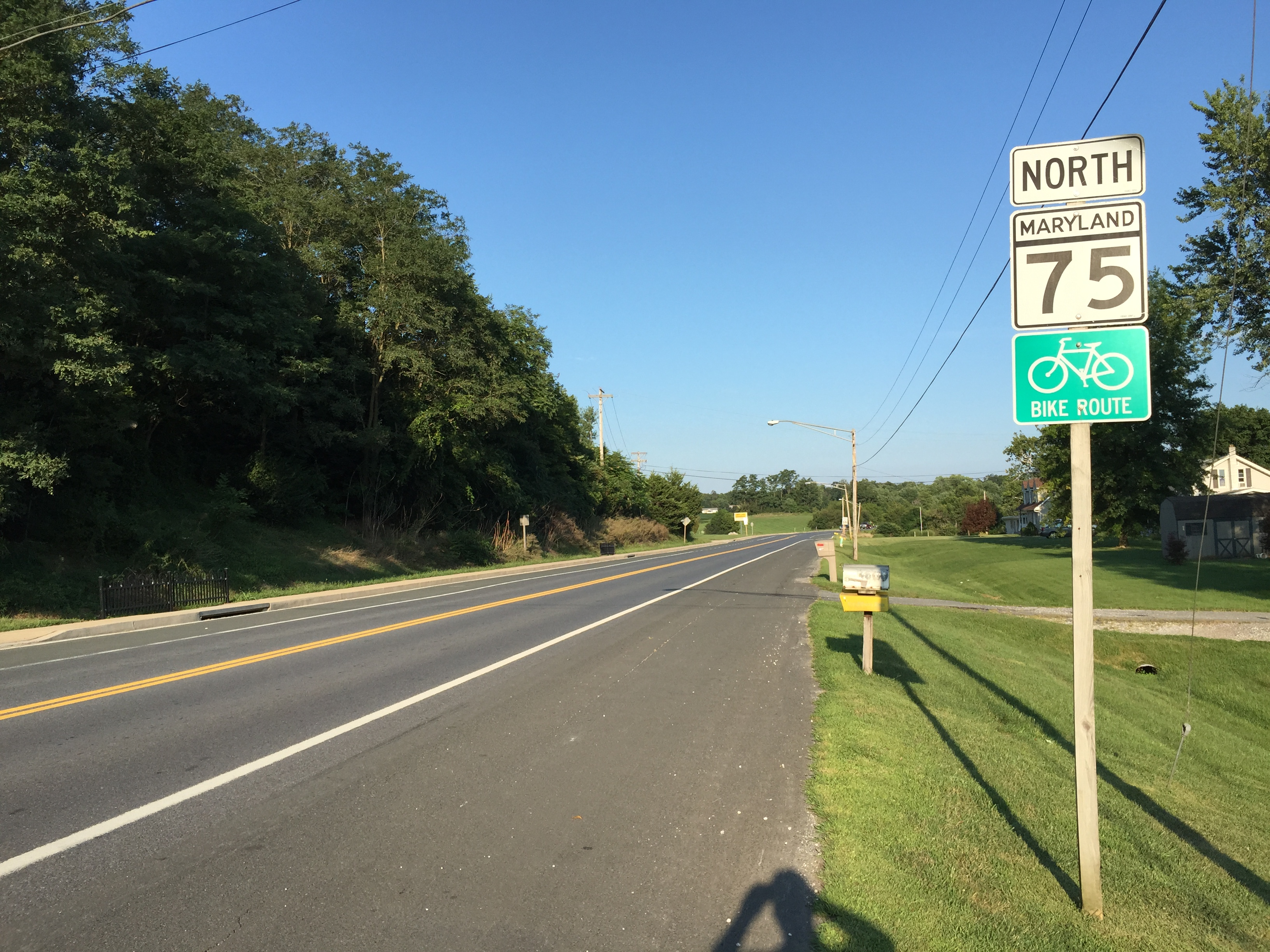 View north along Maryland State Route 75 (Green Valley Road) at Main Street in Union Bridge, Carroll County, Maryland